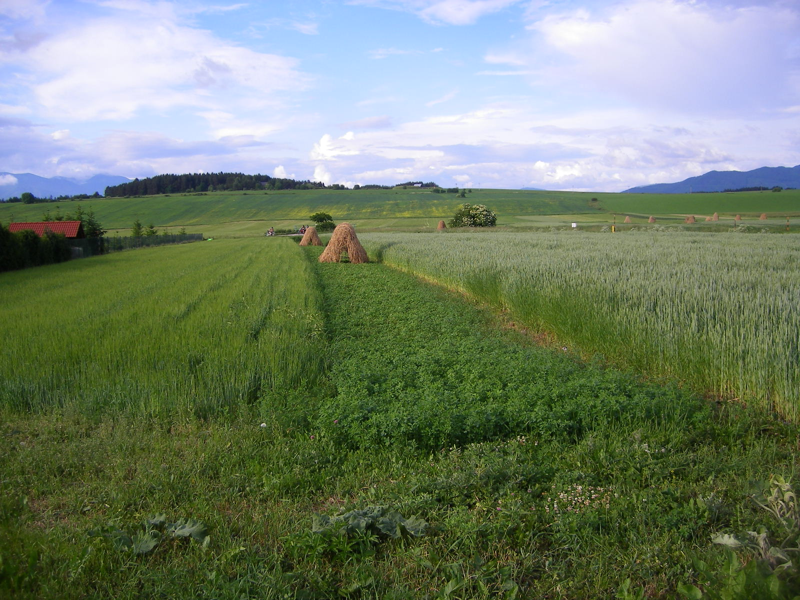 Žabokreky - landscape